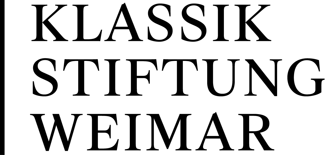 Logo of the institution Klassik Stiftung Weimar